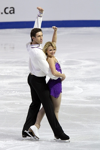 Kirsten Moore-Towers / Dylan Moscovitch at the 2010 Skate Canada International